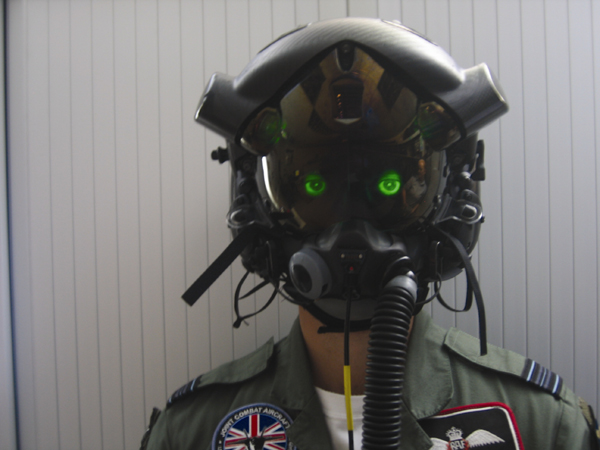 F-35 Pilot's helmet